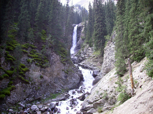 Waterfall "Tear of snow leopard" in Barskaun Canyon